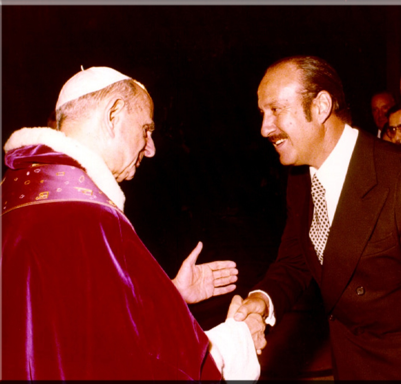 A picture of Lebanese MP Michel Sassine with Pope Paul VI